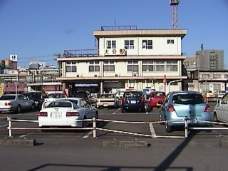 Photograph at South Entrance of JRKyushu Oita Station in railway in Oita City, Oita Prefecture, Japan